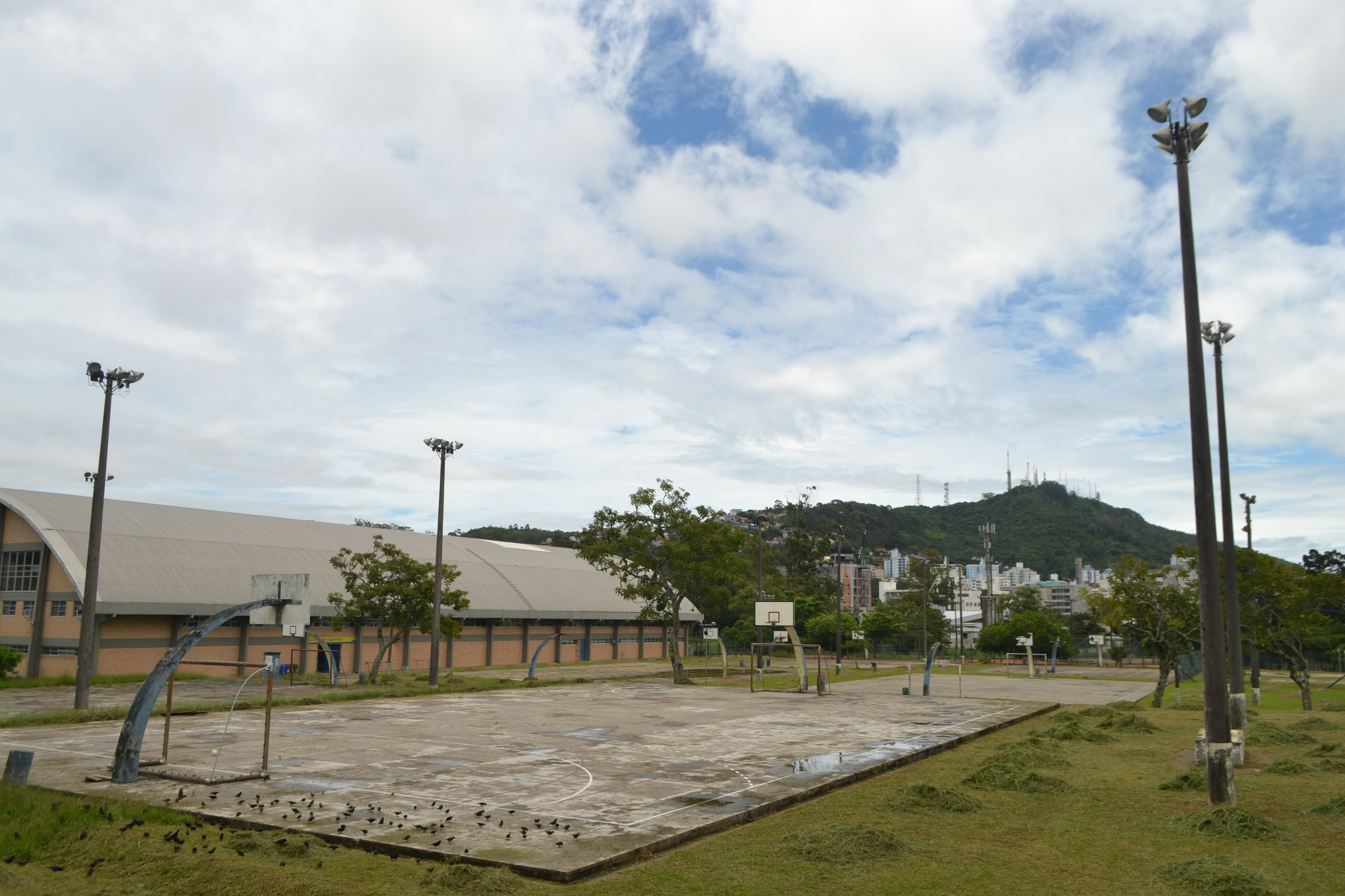 I, Janko Hoener, created this photograph. If you intend to use it, please credit me with the following attribution line: Janko Hoener / CC-BY-SA-4.0. A link back to this page and informing me about your usage is appreciated.